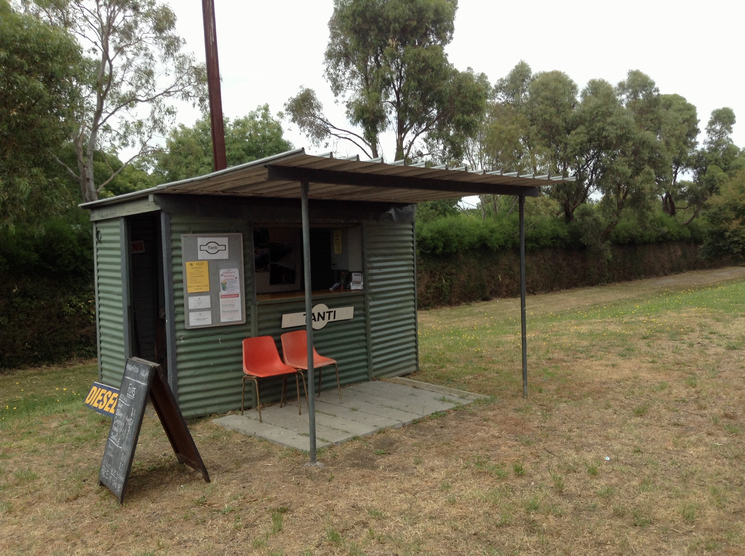 The unused ticket office/shelter.